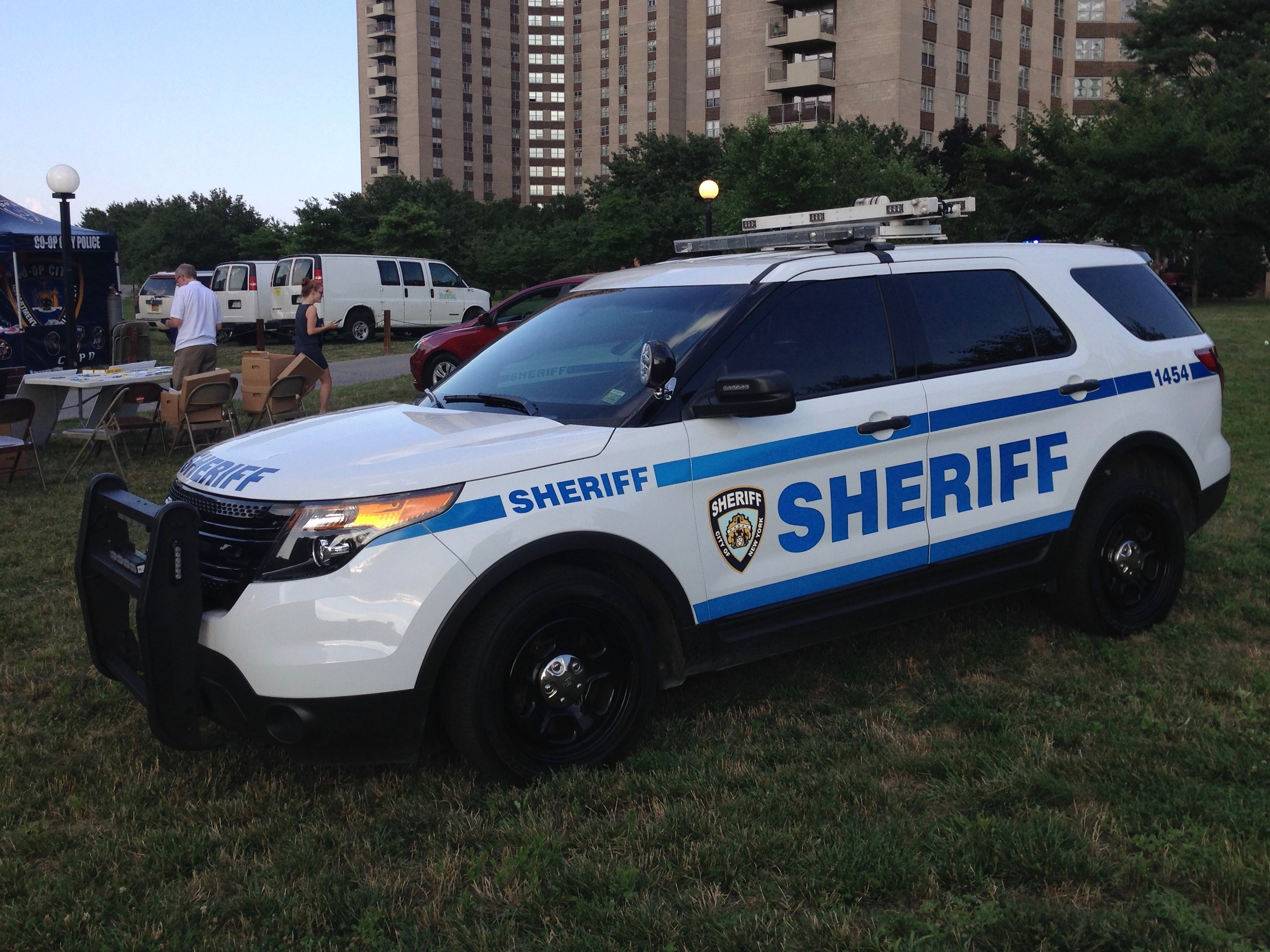 New York City Sheriff vehicle at the 2017 Co-op City National Night Out on August 1st, 2017